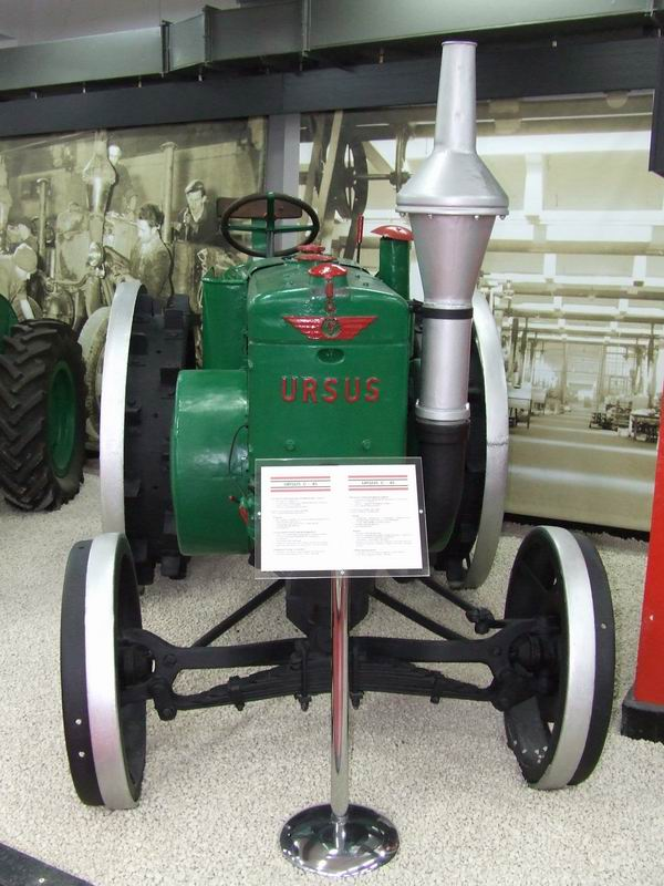 C-45 tractor made in Poland in Ursus factory.